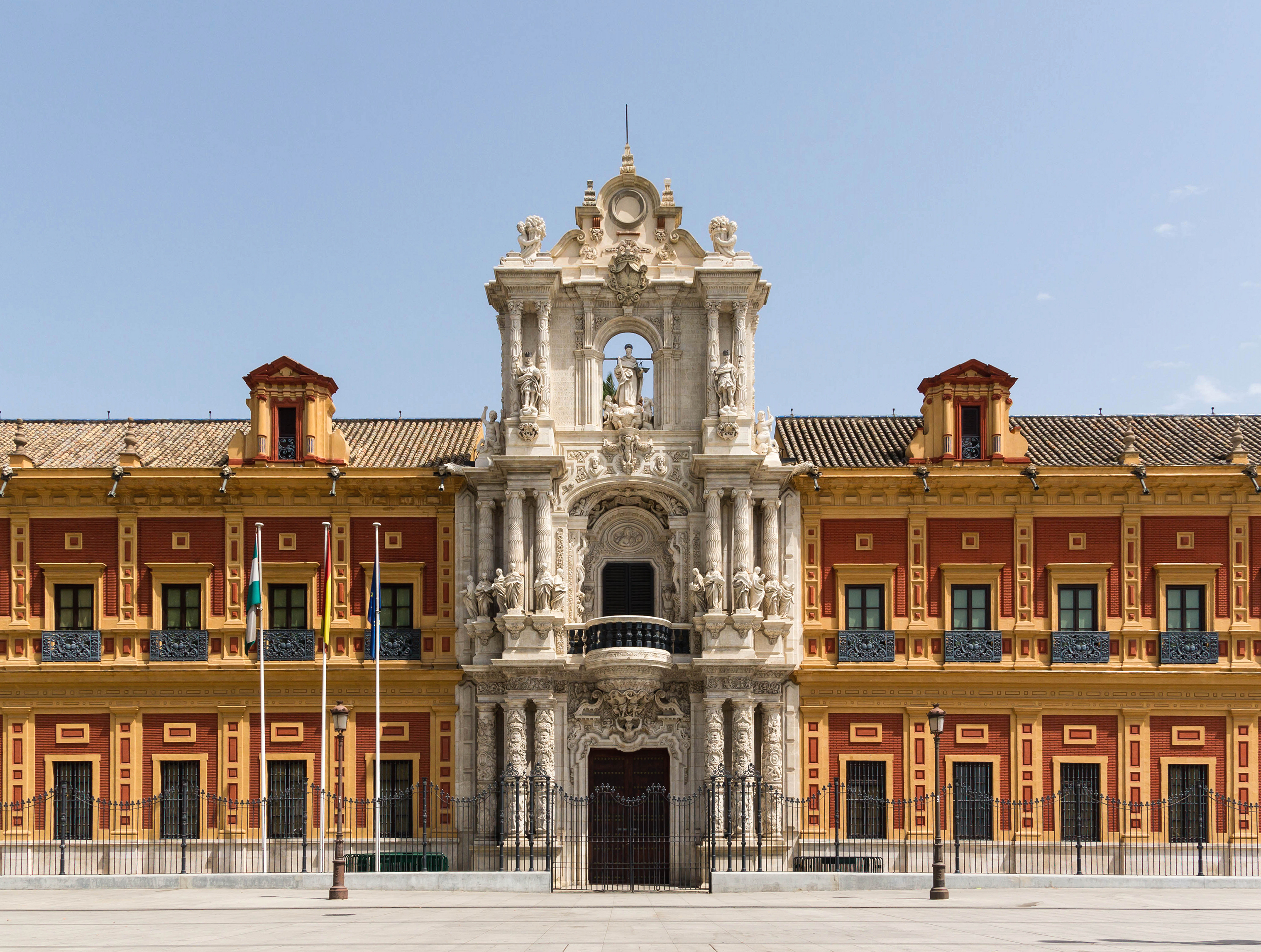 Detail of the main facade of the Palace of San Telmo, nowadays the seat of the presidency of the Andalusian Autonomous Government (Junta de Andalucia), Seville, Spain.